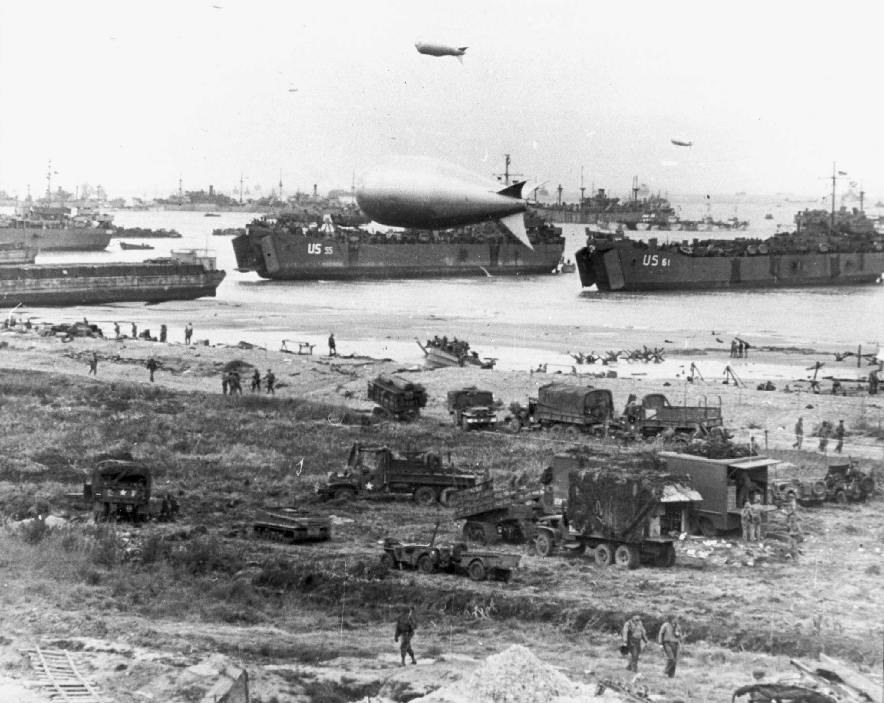 U.S. Navy LSTs and other vessels unloading at low tide at Normandy, soon after the June 1944 invasion. USS LST-55 is in the center, behind the closest barrage balloon. USS LST-61 is at right.Though dated 6 June 1944, this photograph was actually taken at least a day later. Note beach obstacles collected on the shoreline in the right center, shipping offshore, and trucks and other vehicles in the foreground.[1] Original description: "This graphic tells the story of how the France beachhead was supplied on "D-Day". 6 June 1944"